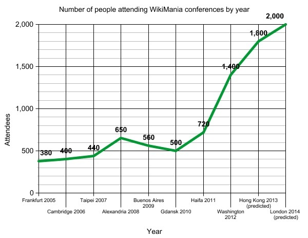 Attendees of WikiMania conferences including projections